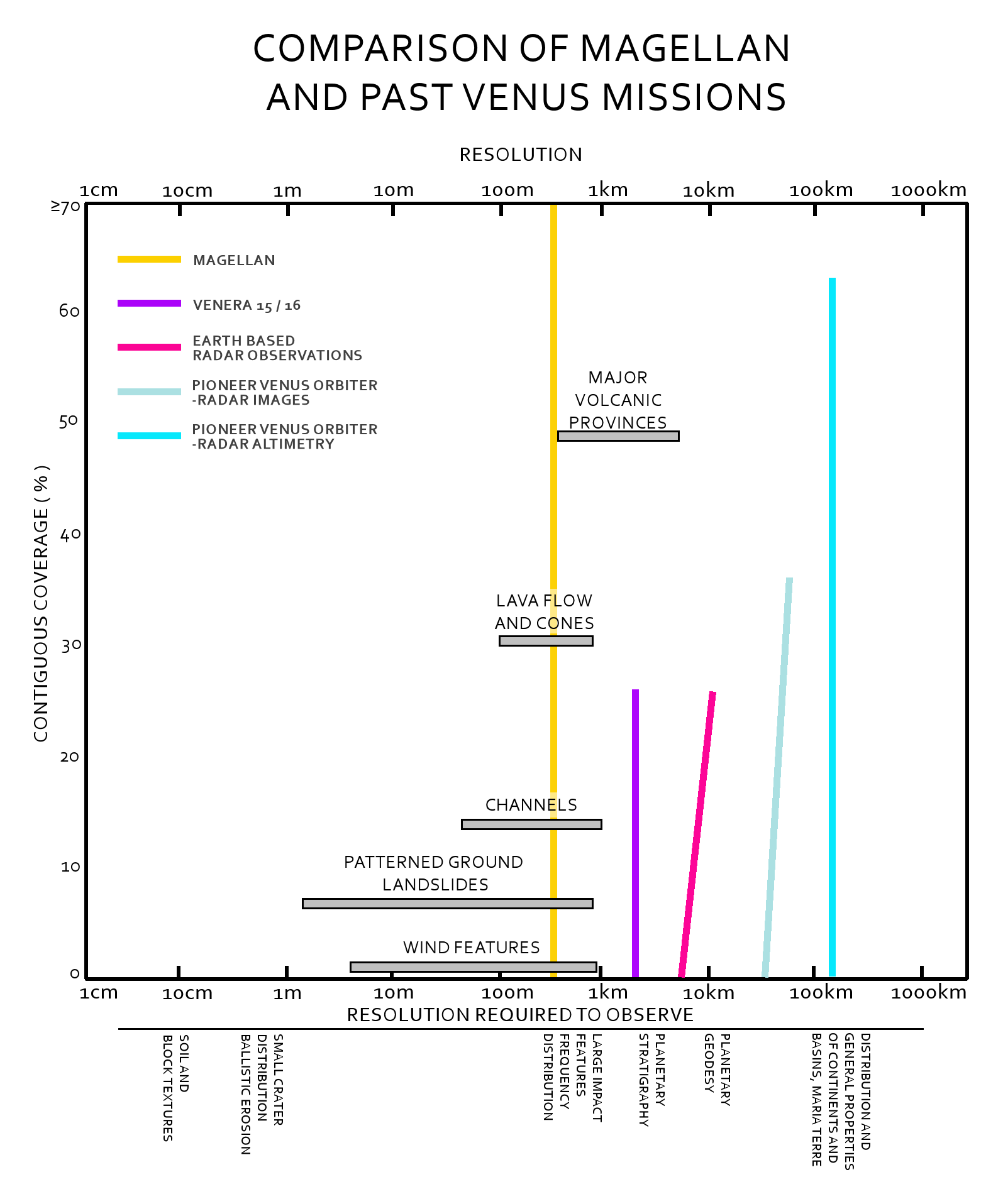 A graph comparing the resolution of images and data gathered by Magellan (Venus Radar Mapper), versus previous missions to Venus.